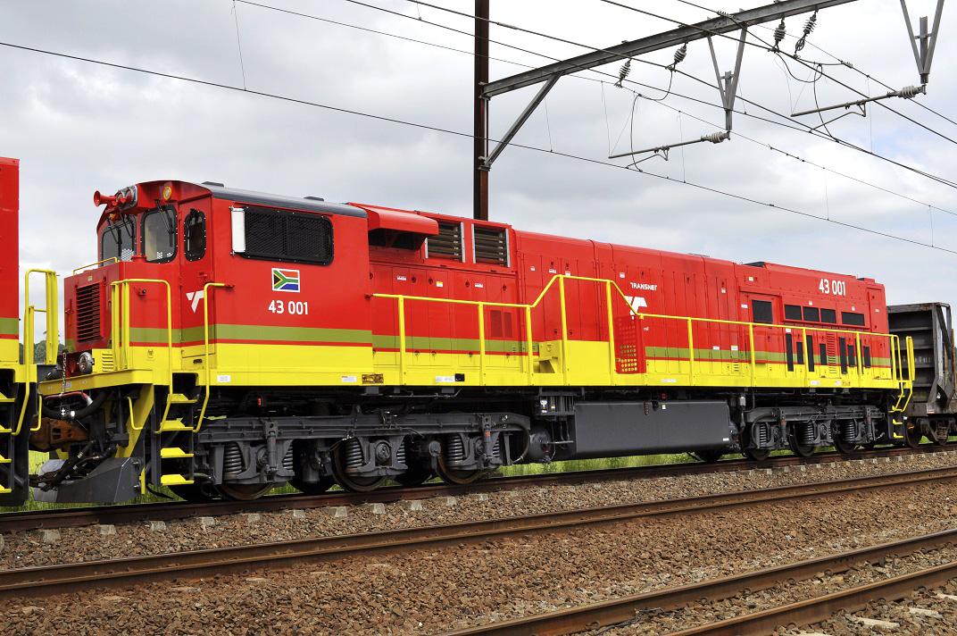 Class 43 Diesel 43-001 en-route to Koedespoort.